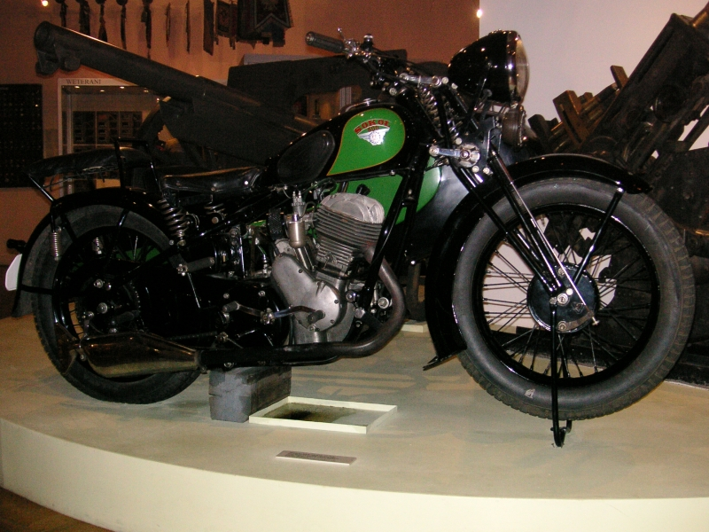 Made during a summer day in Warsaw's Museum of the Polish Army; Sokół 600 motorcycle.